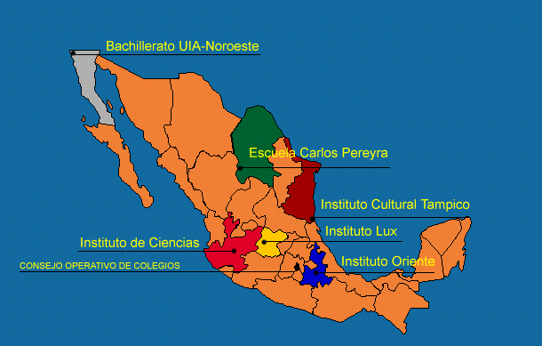 map of the jesuit´s schools in mexico